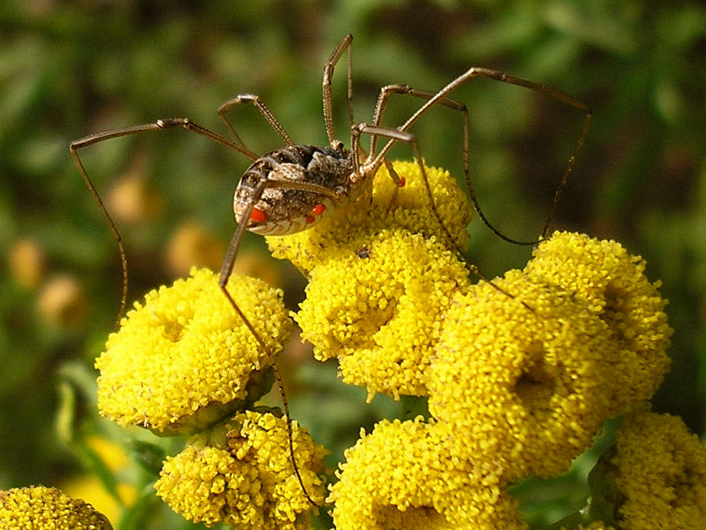 Female Harvestman of species Phalangium opilio infested with parasitic larvae of Mites (either Trombidiidae or Erythraeidae) Location: Twentekanaal, Goor, Netherlands Keywords: Opiliones, Harvestmen, mites, Acari, larva, parasite, parasitism